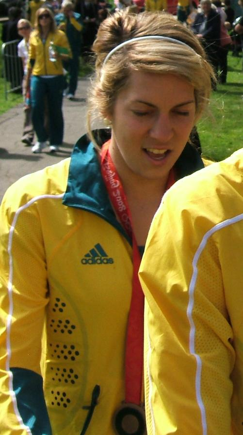 Jenny Santoromito at the 2008 Olympic welcome home parade in Adelaide